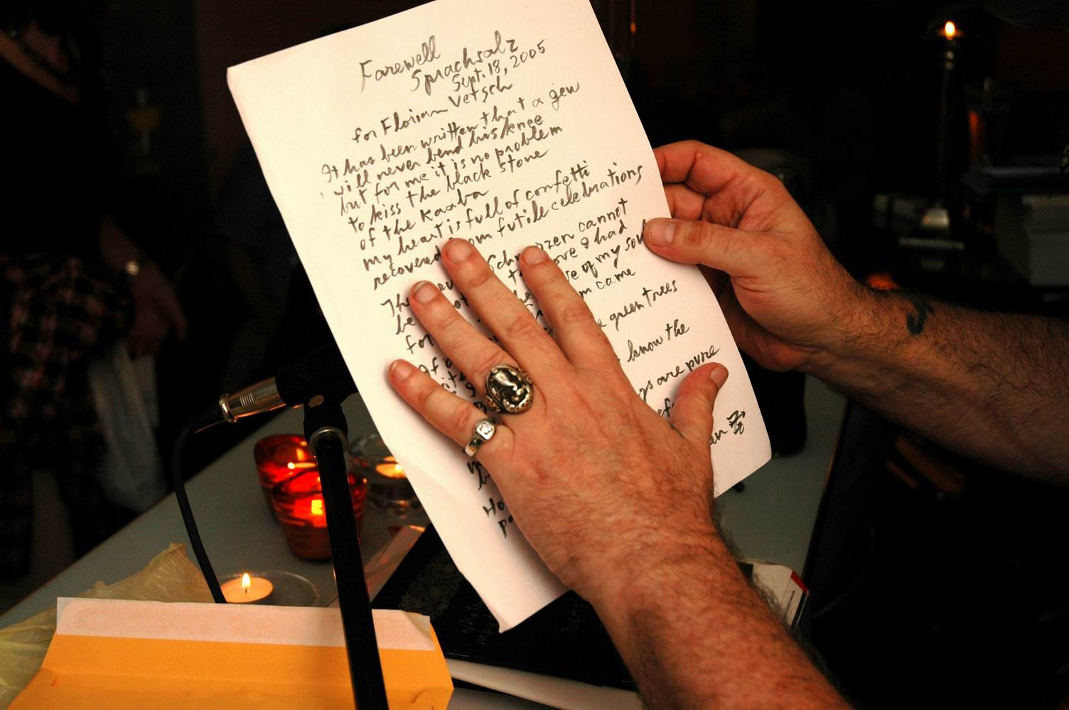 Ira Cohen's hand and handwriting of a poem for Florian Vetsch, photographed by Amsél, St. Gallen, Switzerland, 2005.